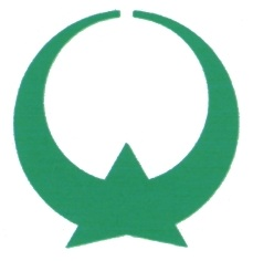 Otawara Tochigi chapter